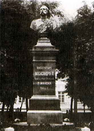 Monument to emperor Alexander II of Russia in Minsk (1901) now Belarus